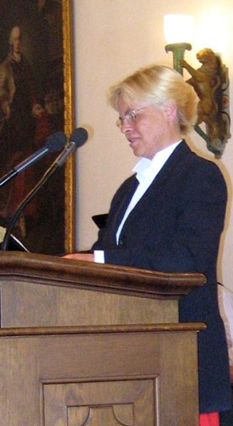 Hortense von Gelmini awarded by foundation Pro Europa 2007